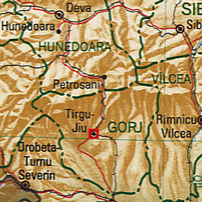 Map of Târgu Jiu Municipality, Romania.